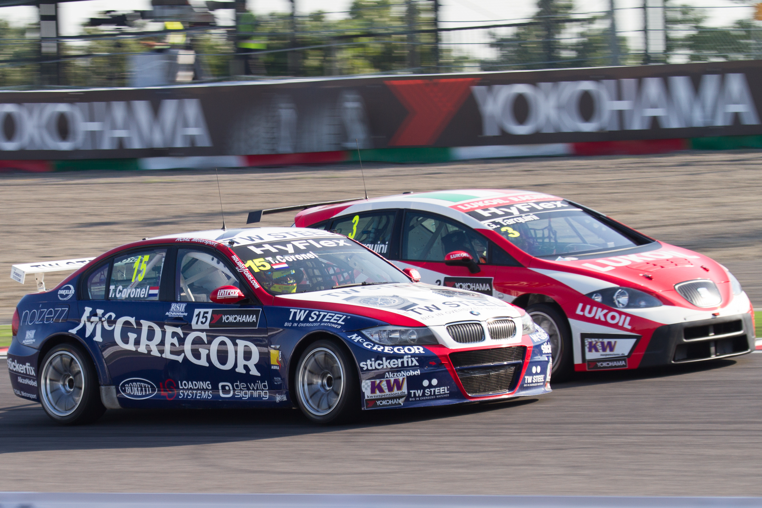 World Touring Car Championship 2012 Race of Japan: Tom Coronel (ROAL Motorsport) and Gabriele Tarquini (Lukoil Racing Team)